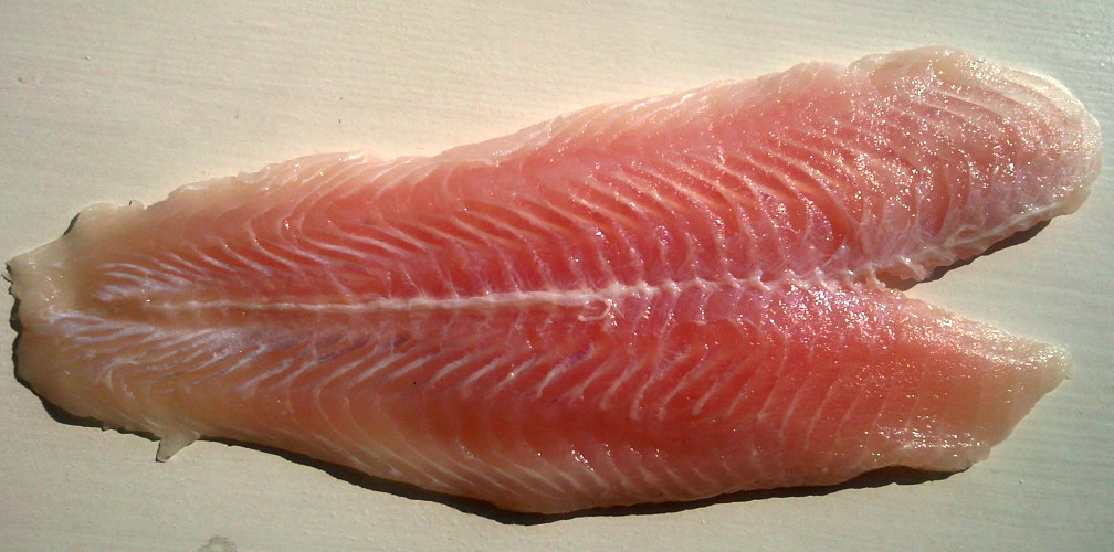 Pangasius hypothalamus meat in a German fish shop